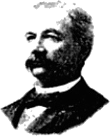 Asa C. Matthews